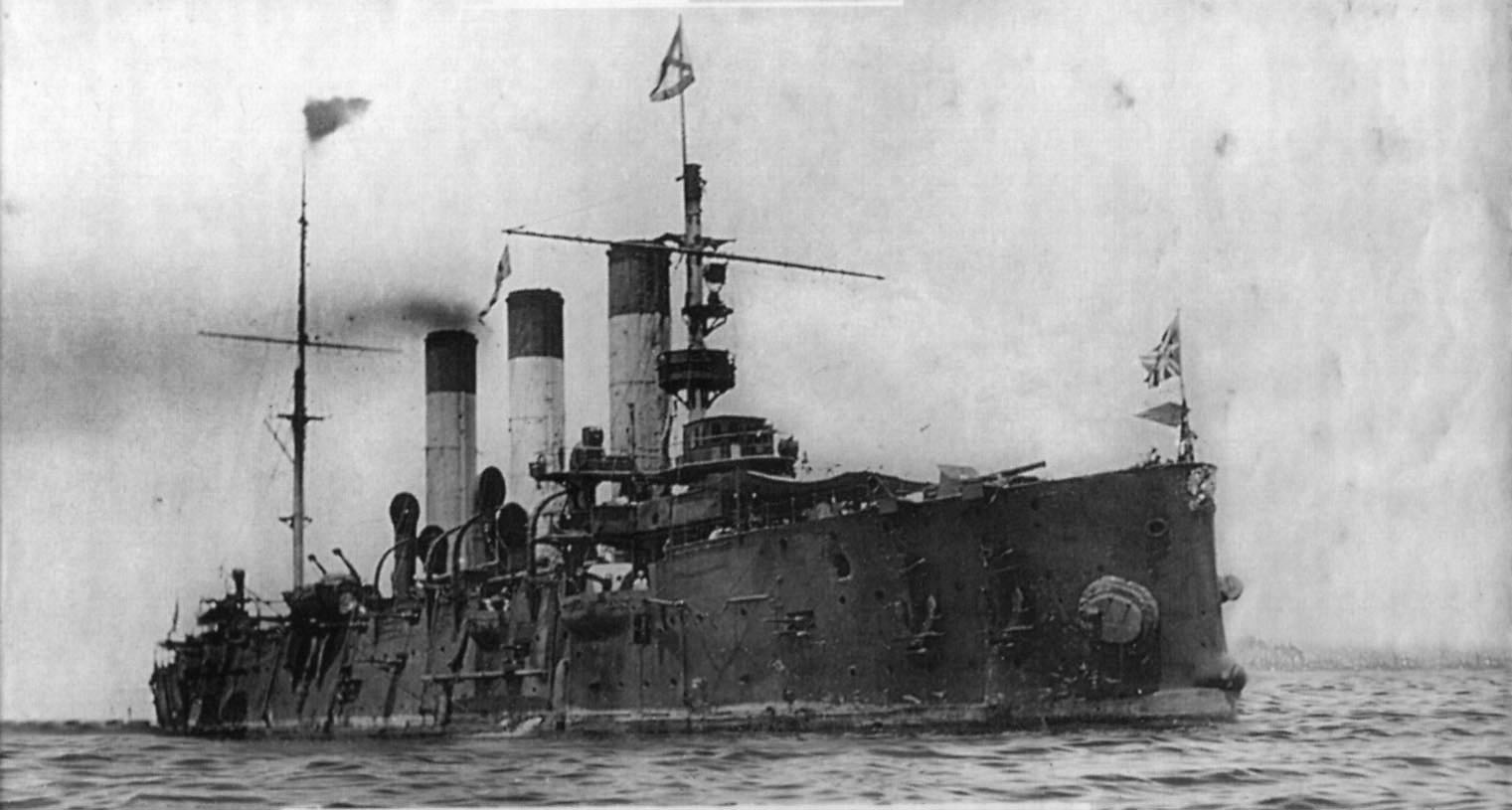 Imperial Russian cruiser Avrora in Manila, June 1905.